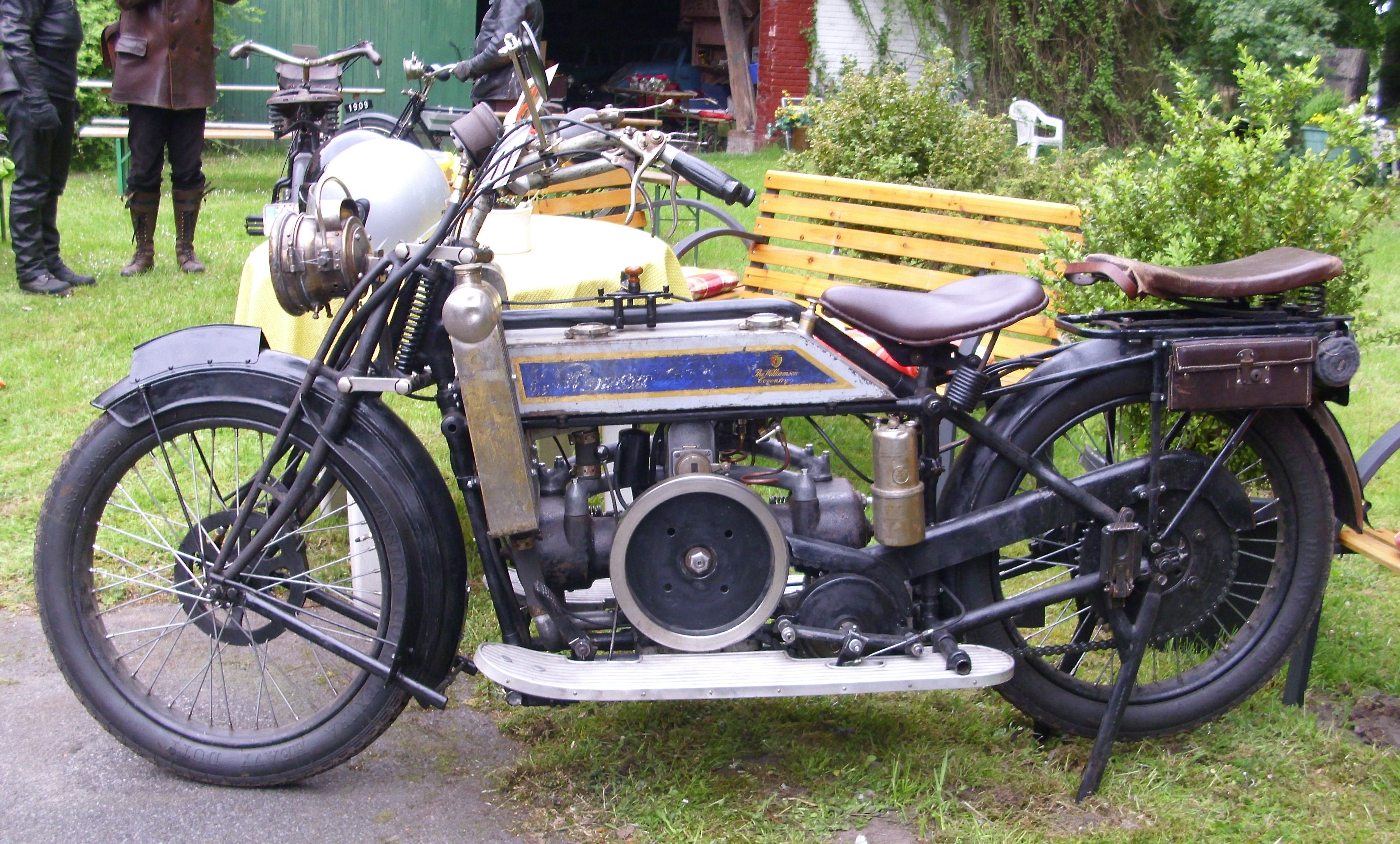 Williamson Motorrad 1913